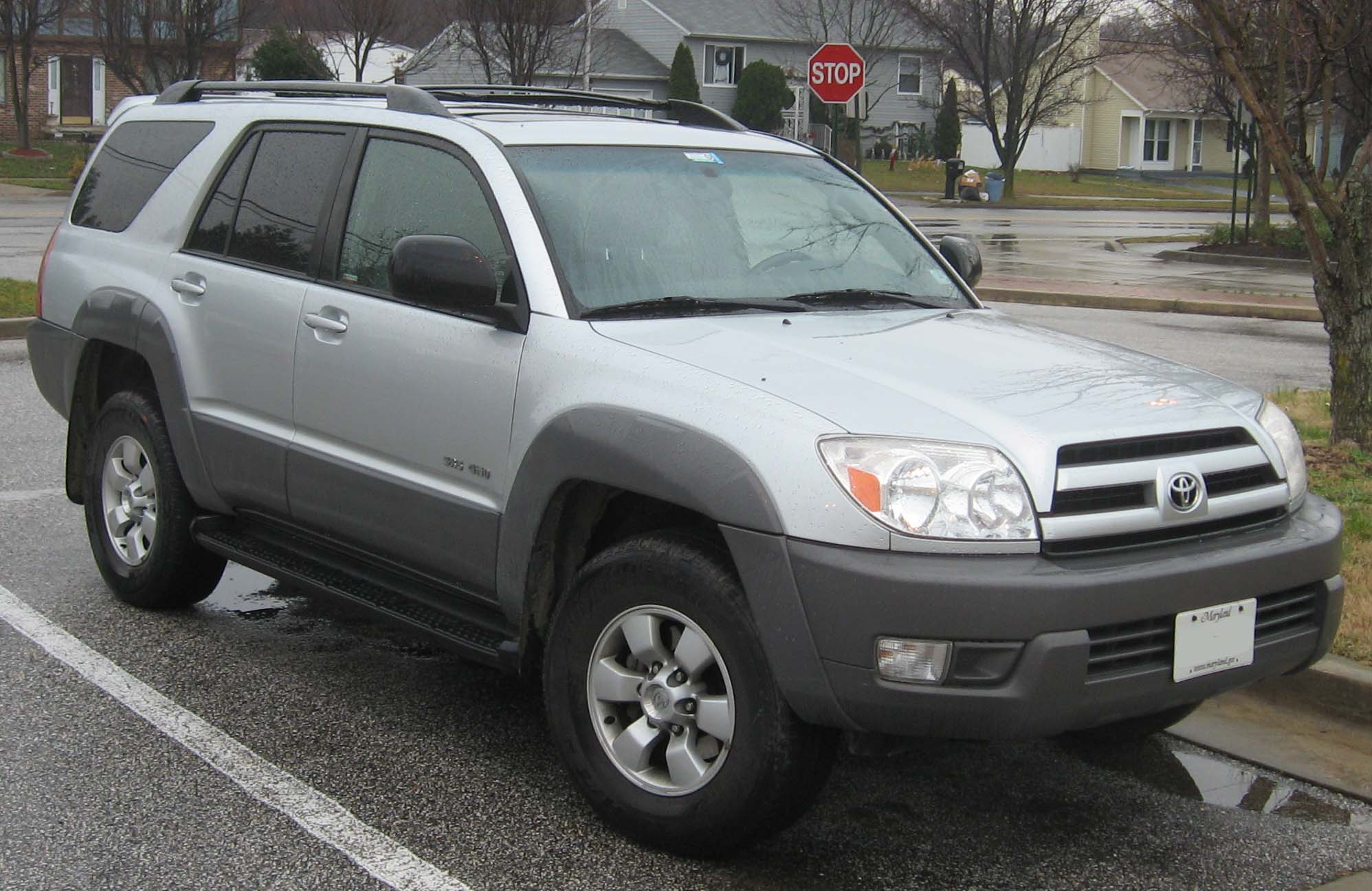 2003-2005 Toyota 4Runner photographed in Fort Washington, Maryland, USA.